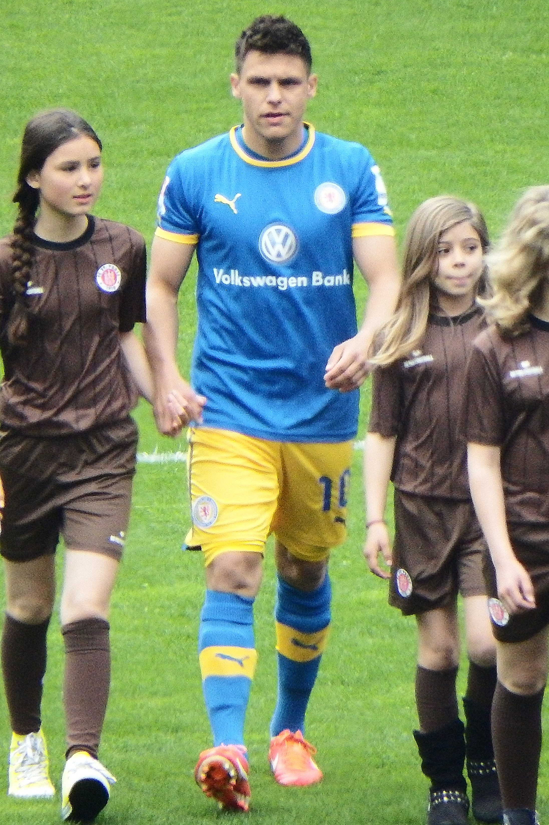 Mirko Boland as Player from Eintracht Braunschweig